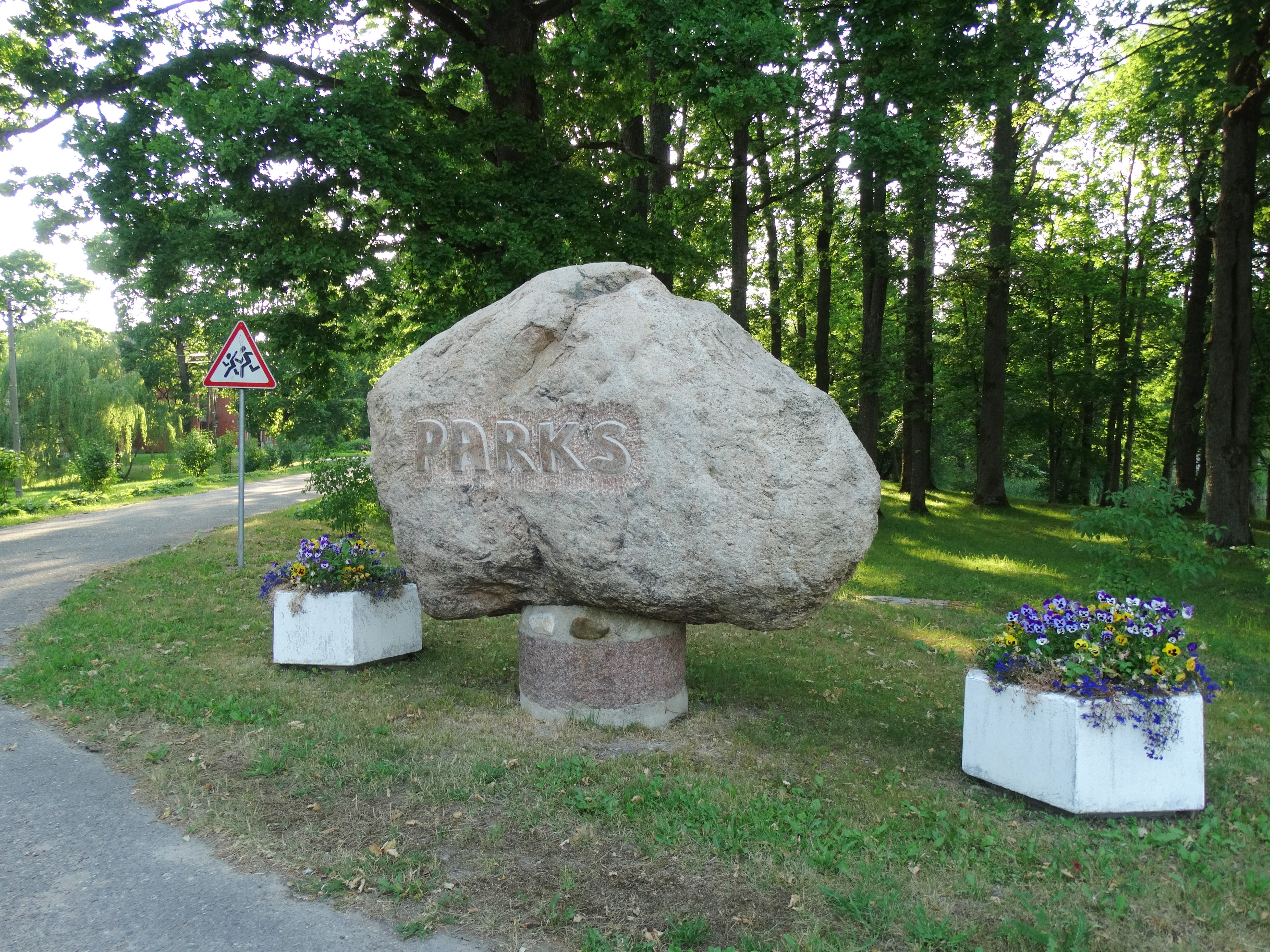 Park in Degaičiai, Telšiai district, Lithuania